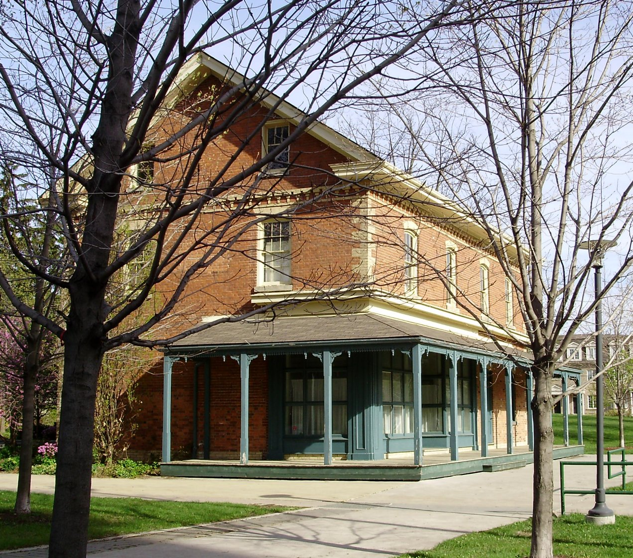 The Dempsey Store in North York, Ontario, a historic landmark built as a hardware store in 1860. Photographed in Dempsey Park, where it has stood since 1997.